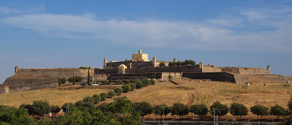 Elvas, Forte de Santa Luzia viewed from Northwest